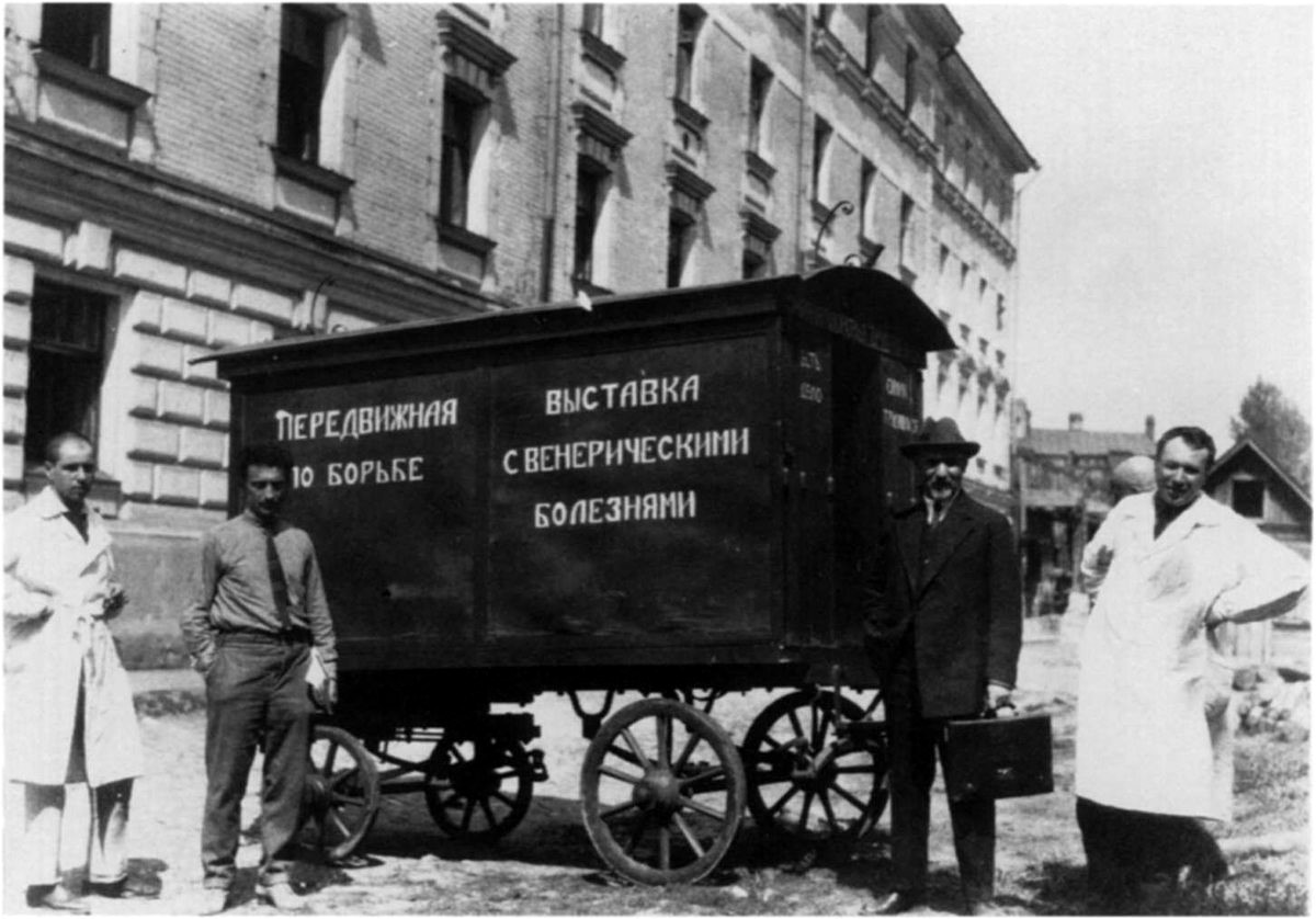 Frontline of Soviet Anti-Syphilis Propaganda. To the right of the wagon is Dr. Volf Bronner. Photograph by Dr. Karl Wilmanns, summer 1926, Moscow, in front of the State Venereological Institute.